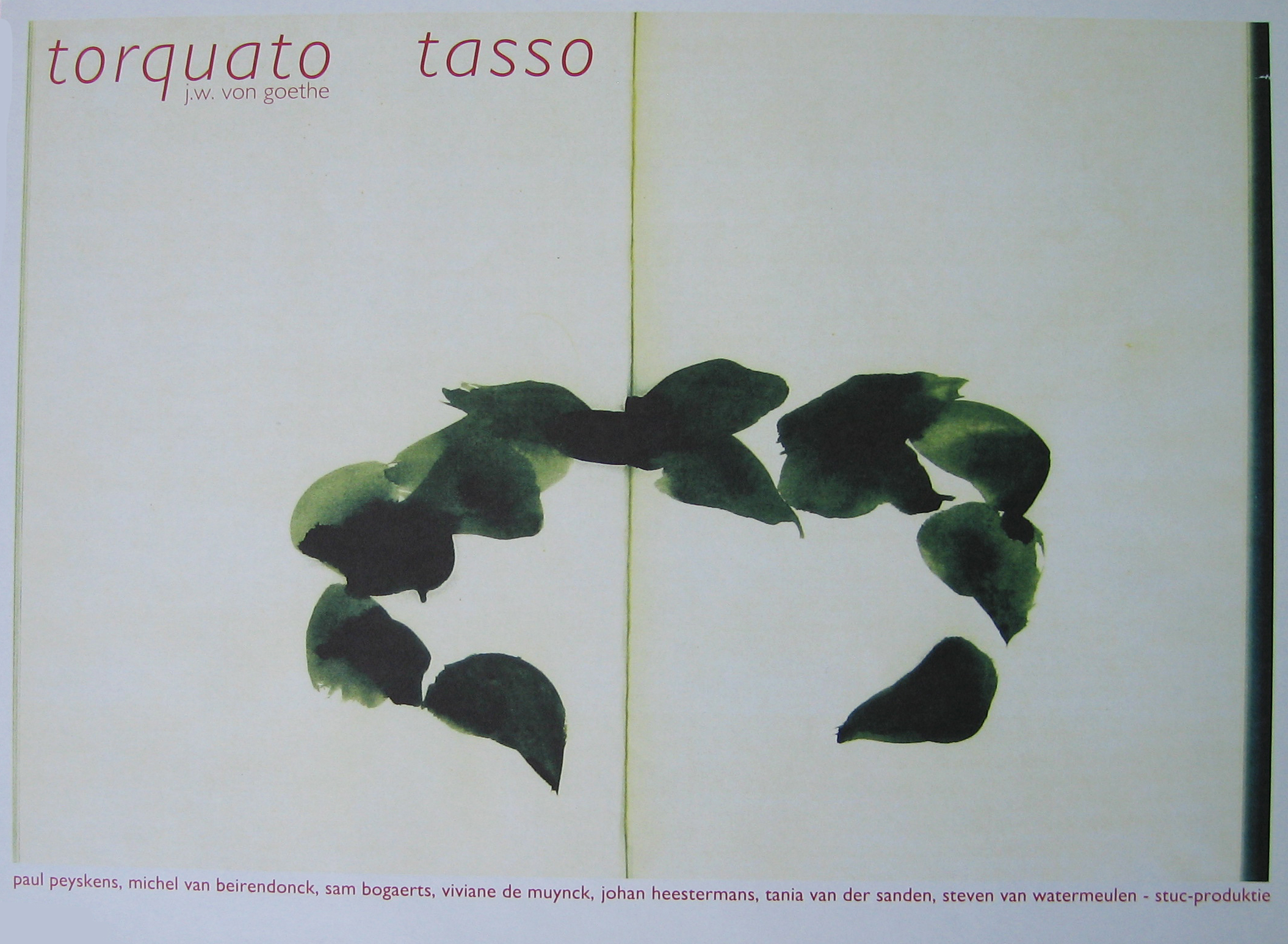 Poster designed by Michel van Beirendonck for the theatre production "Torquato Tasso" (after Goethe), 1992